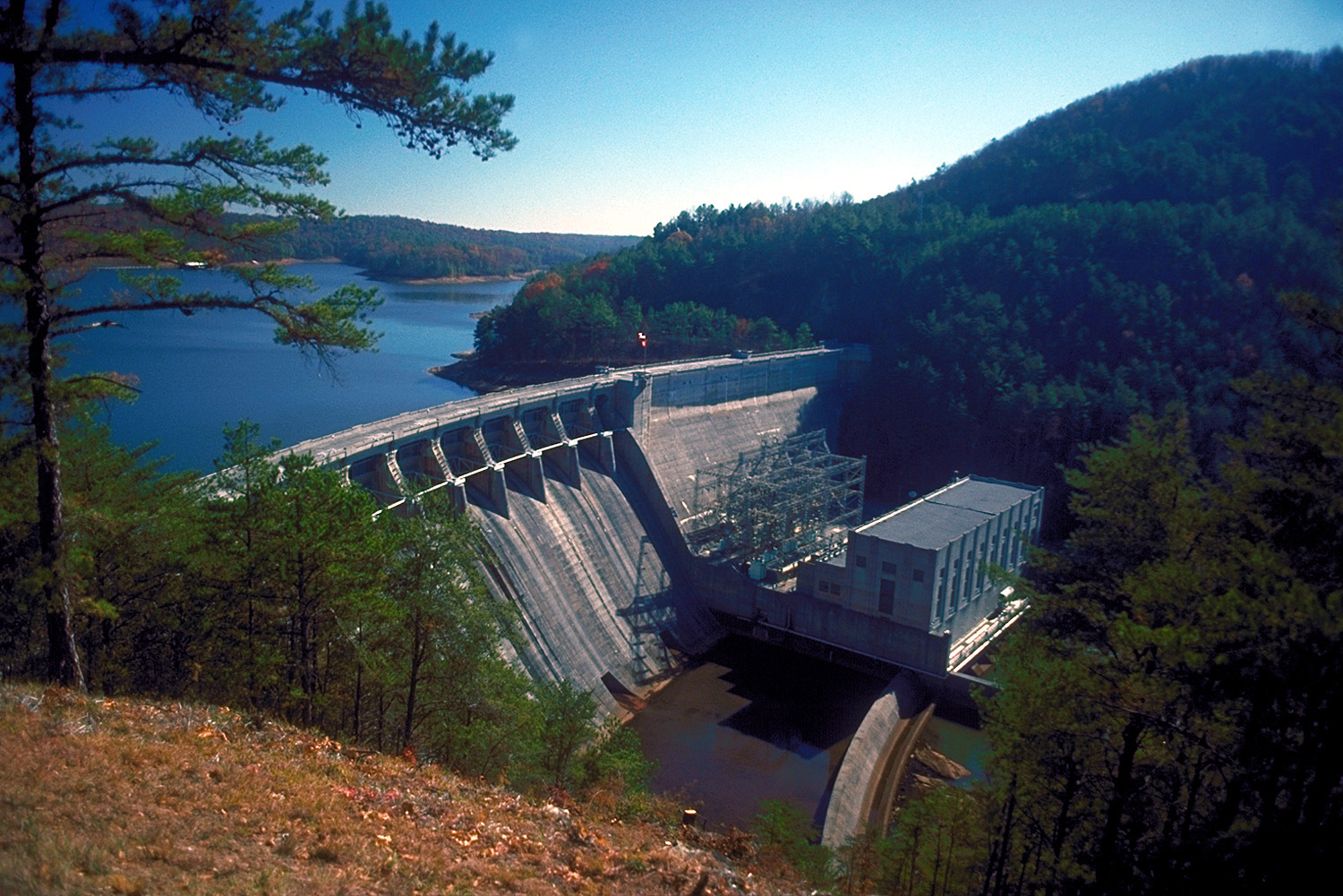 Allatoona Dam and Lake on the Etowah River in Bartow County, Georgia, USA. The U.S. Army Corps of Engineers constructed the dam for flood control on the Etowah River. Coordinates: 34°9′50.28″N 84°43′40.34″W / 34.1639667°N 84.7278722°W